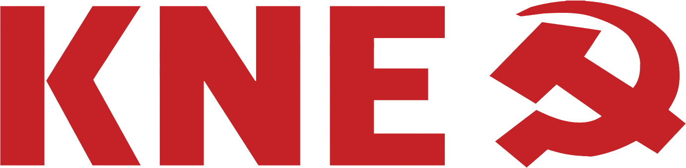 Logo of the Communist Youth of Greece